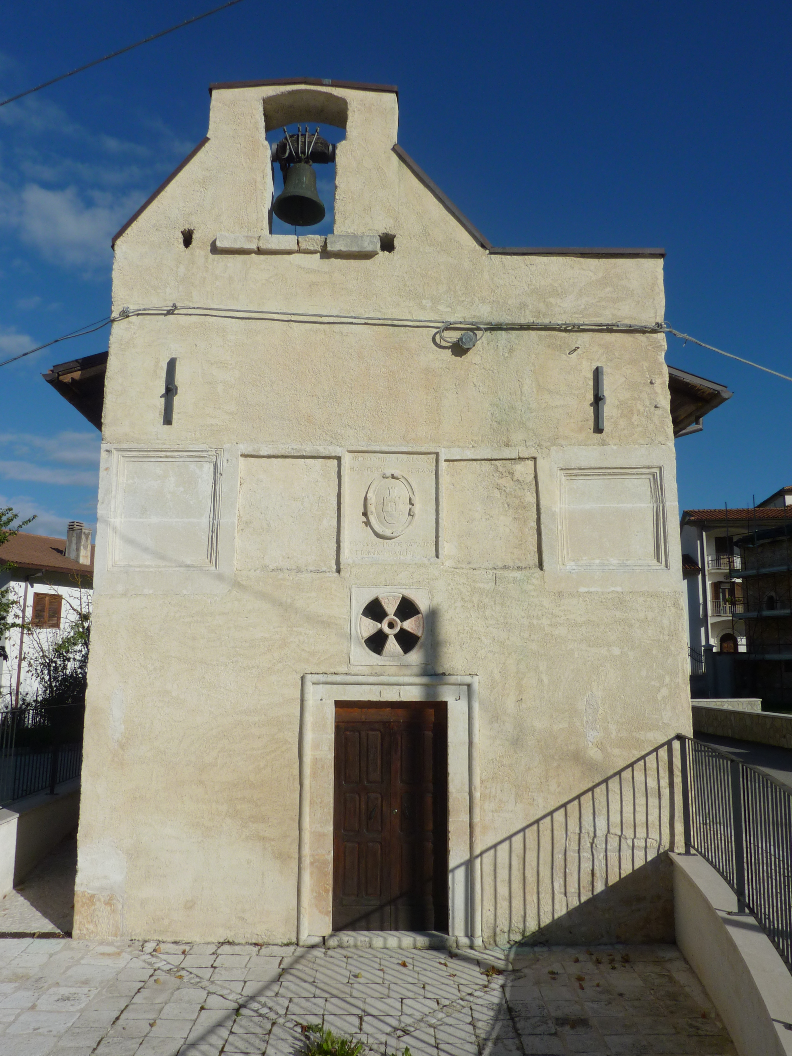 Fossa (AQ): Chiesa di San Clemente